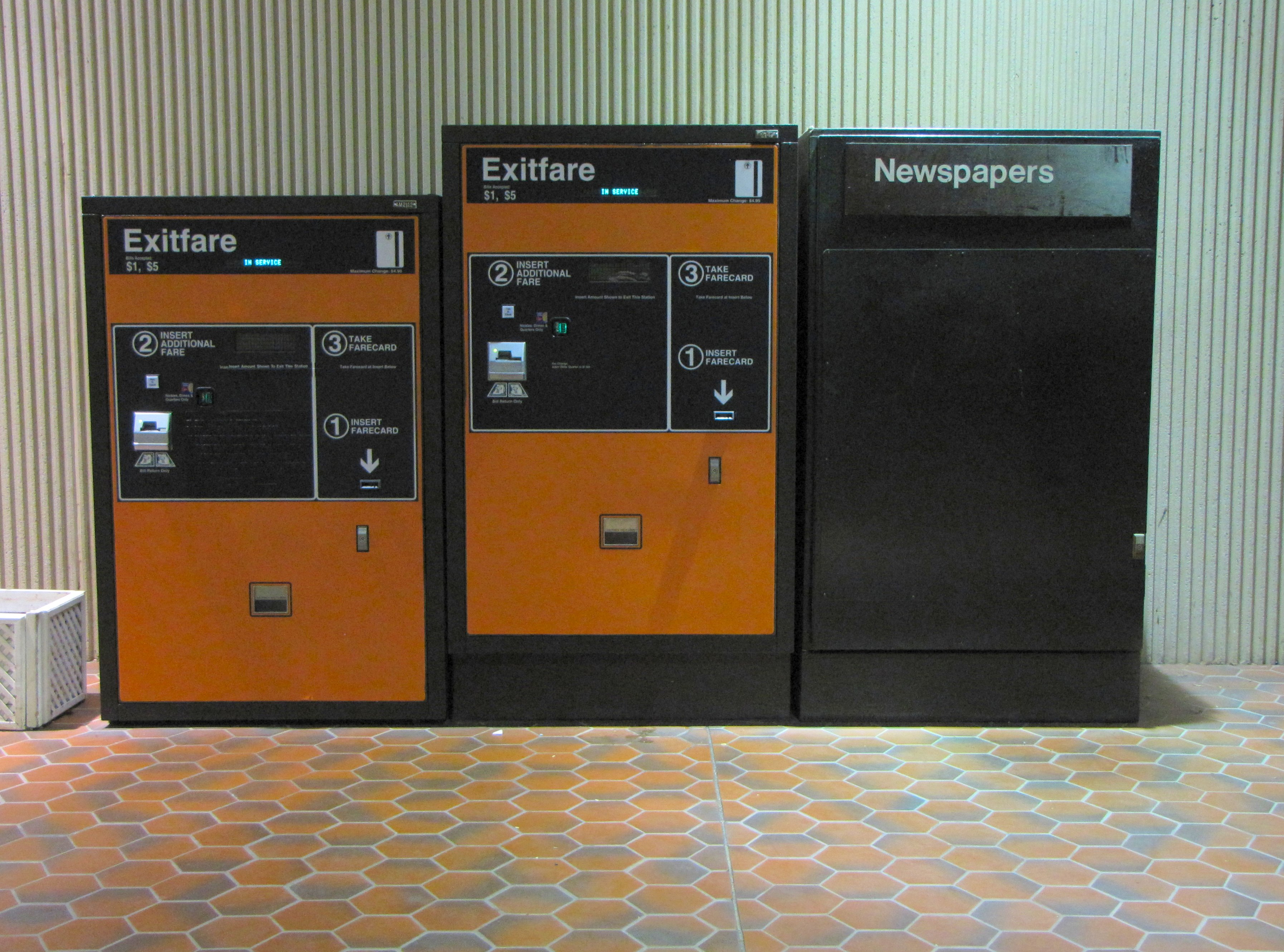 Exitfare machines at Largo Town Center station, Washington Metro, in Prince George's County, Maryland.